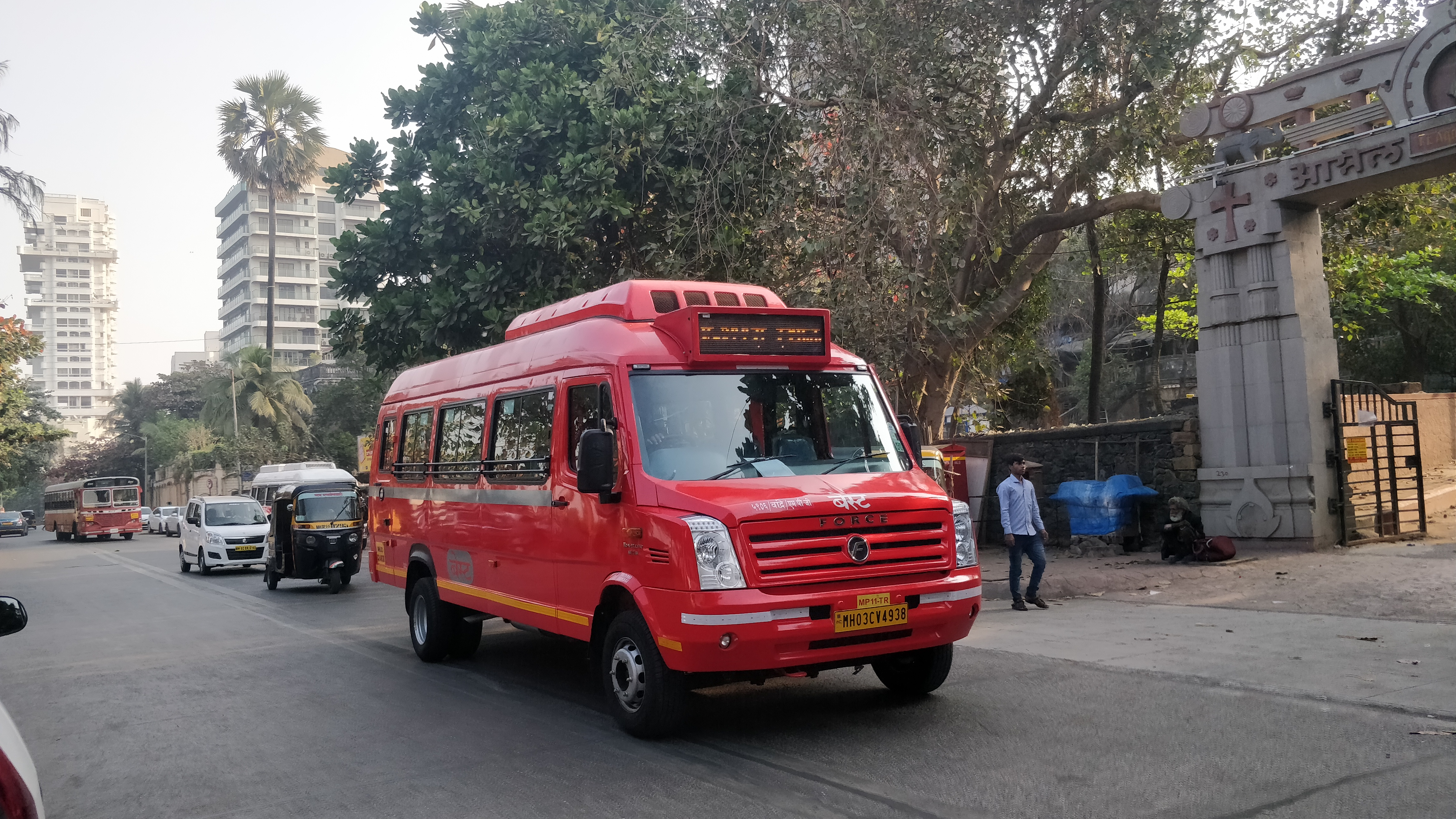 Mumbai BEST Mini Feeder Bus 2020